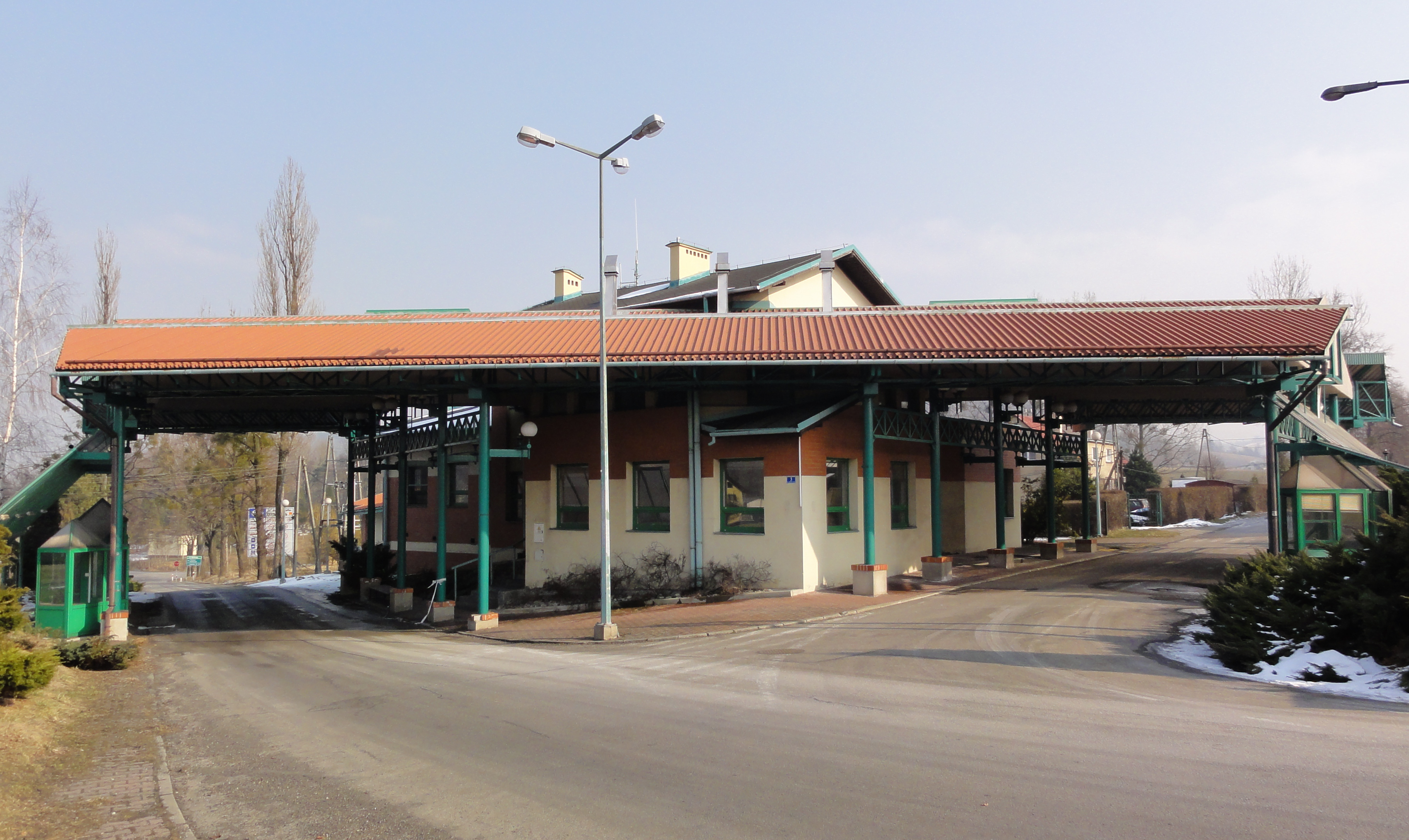 Former border crossing between Leszna Górna (Poland) and Horní Líštná (Czech Republic) seen from Czech side